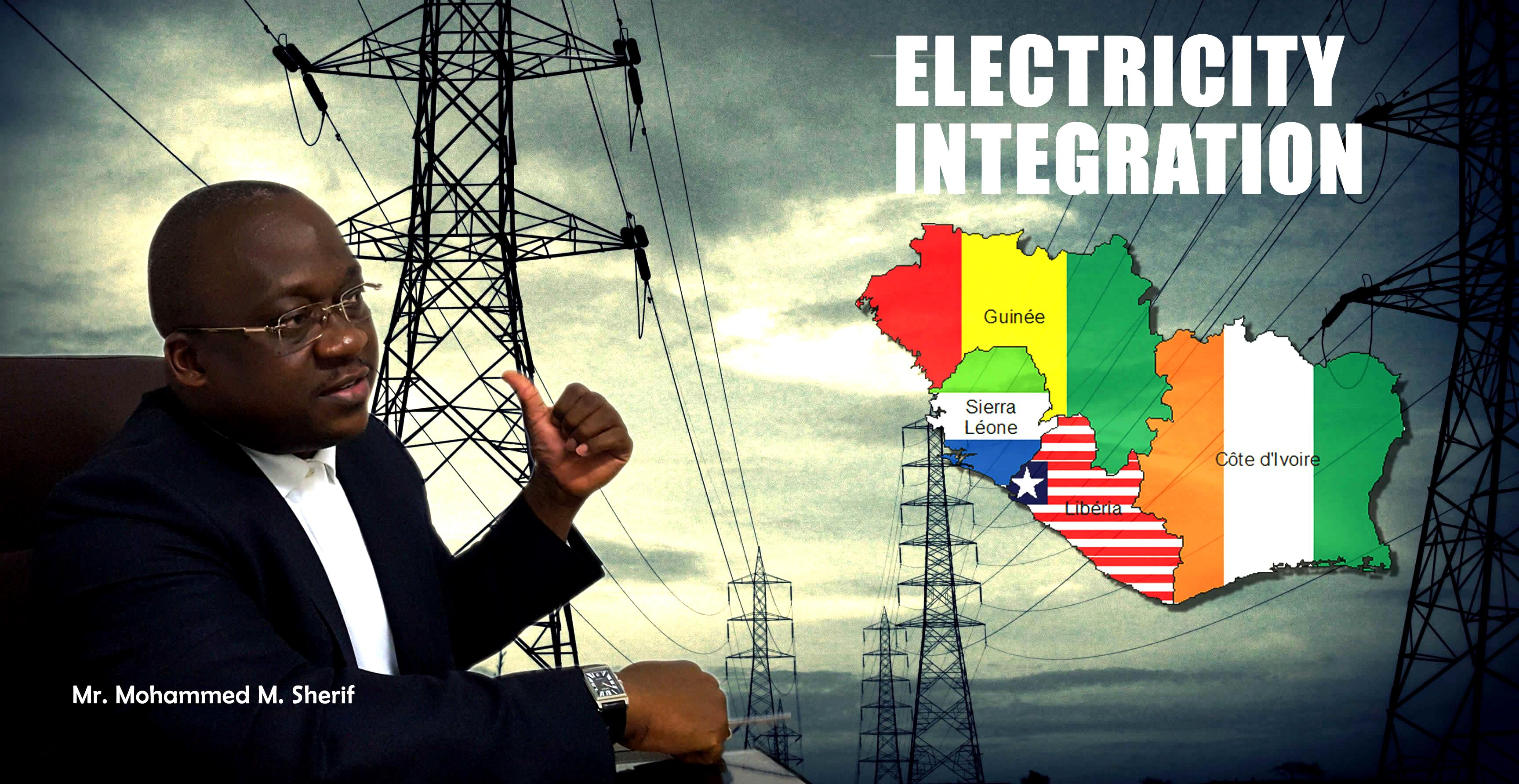 Mohammed M. Sherif eyeing electricity integration through TRANSCO CLSG